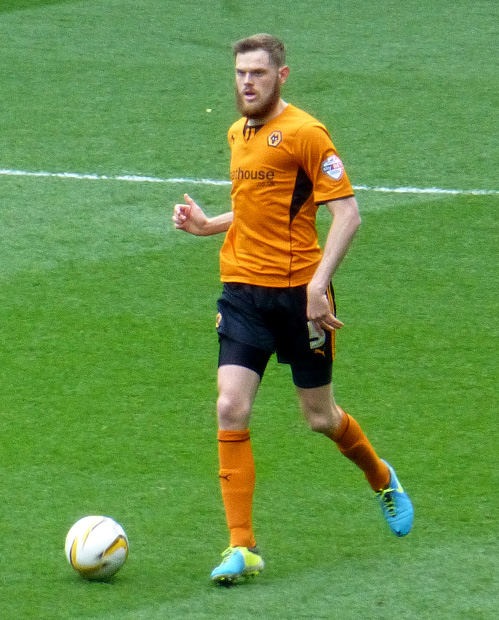 Richard Stearman - Wolverhampton Wanderers vs Peterborough United (05/04/2014)